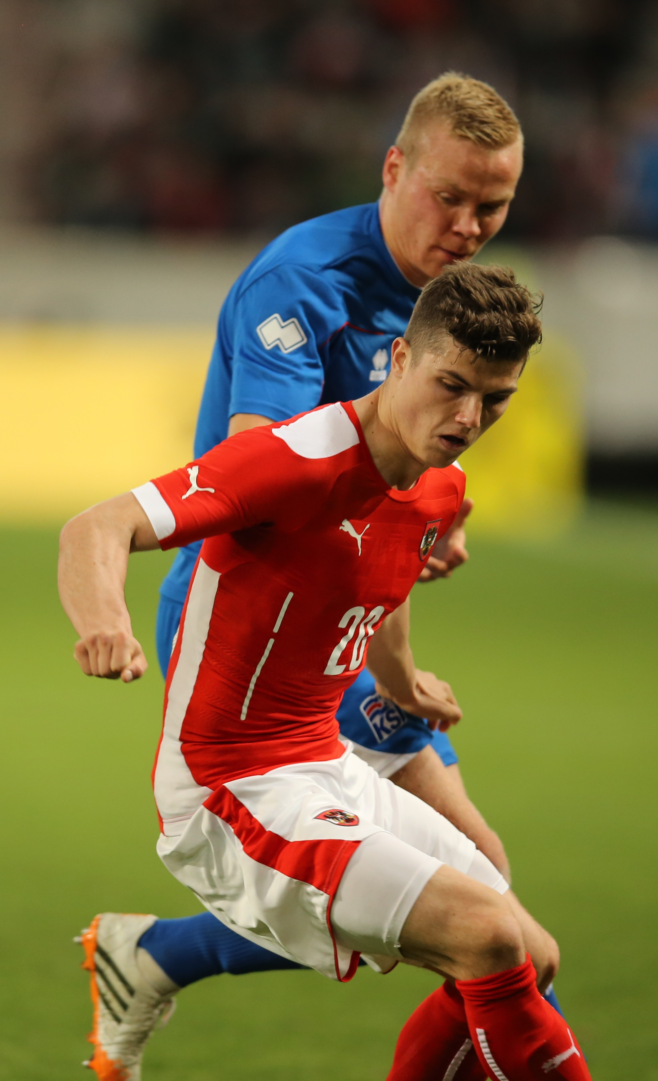 Austria - Iceland football match in Innsbruck, Austria on 2014-05-30. Austria in red, Iceland in blue.